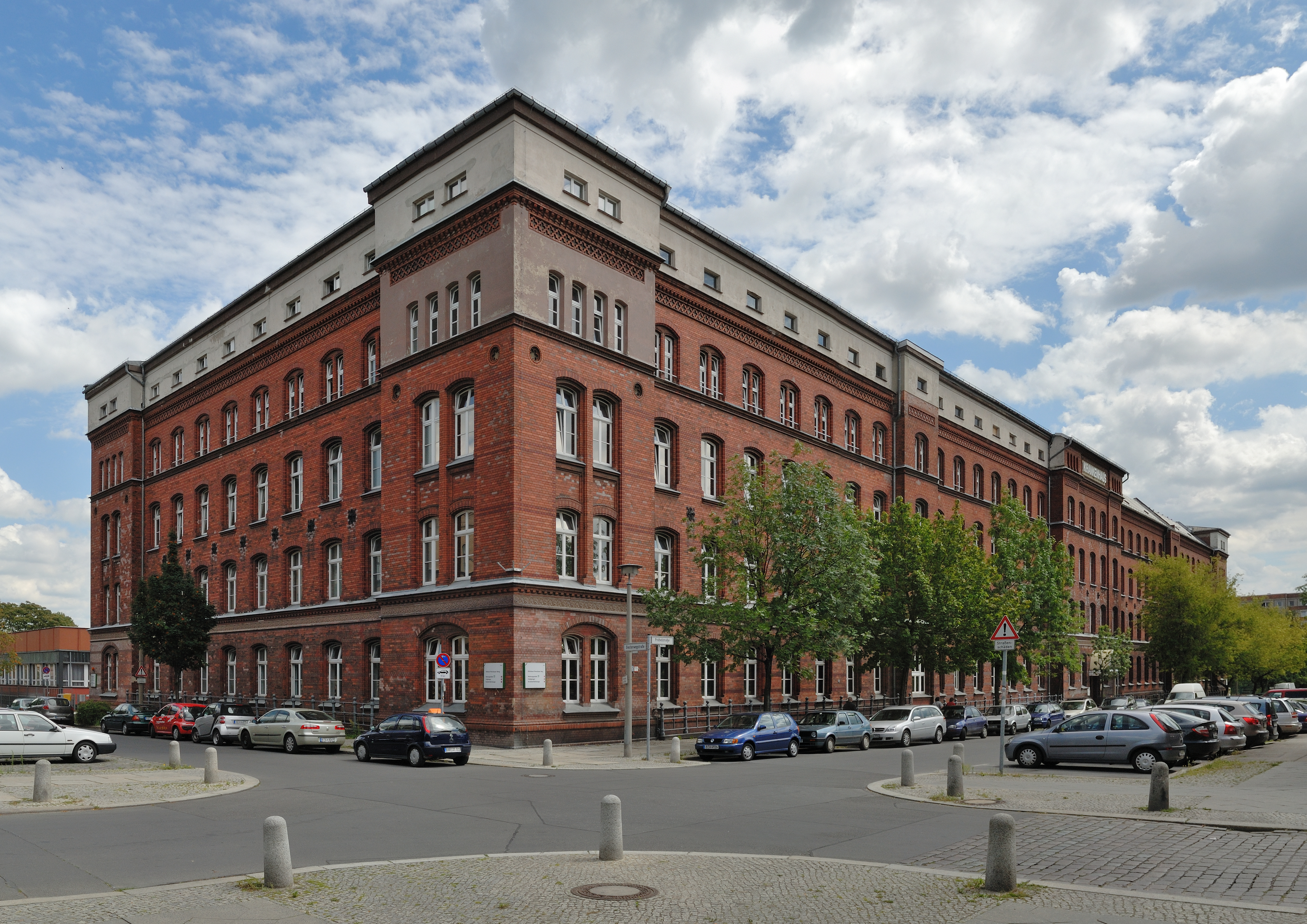 Hospital Prenzlauer Berg.